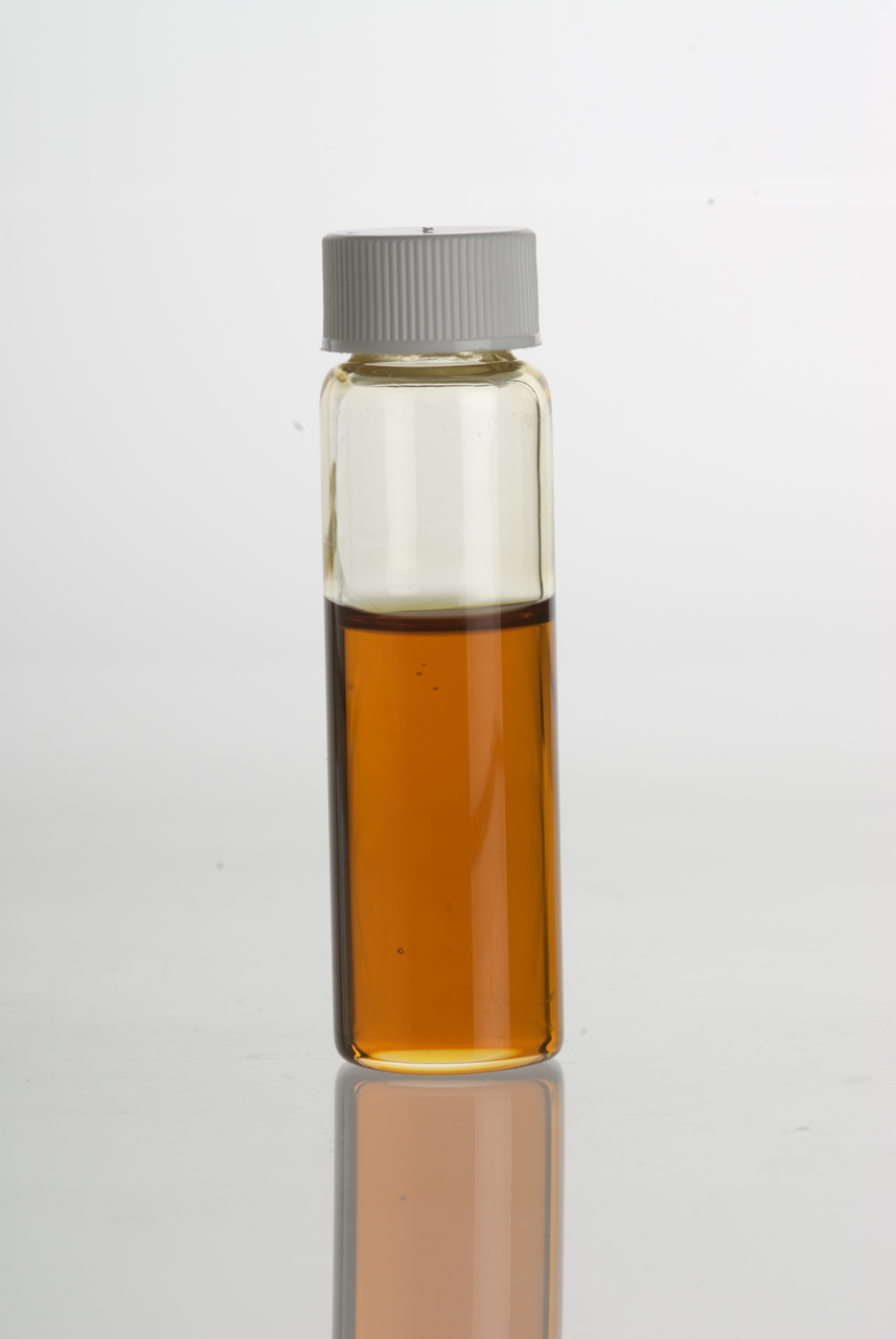 Vetiver (Vetiveria zizanoides) Essential Oil in clear glass vial